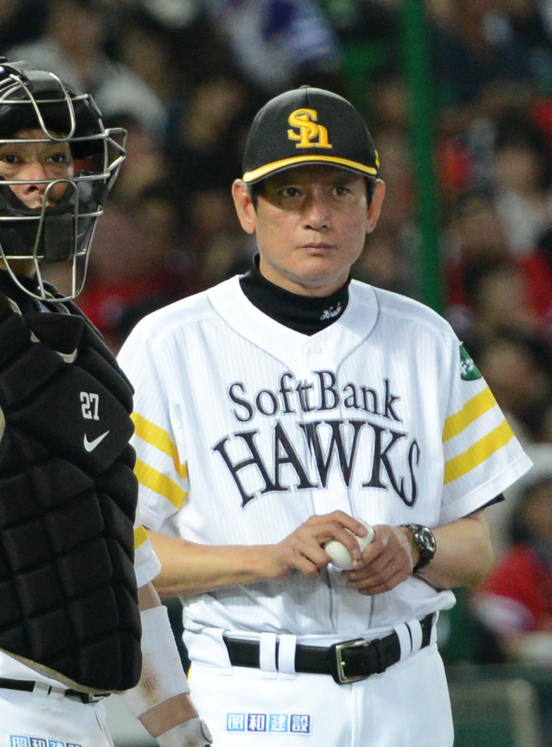 Kuo Tai-yuan, coach of the Fukuoka SoftBank Hawks, at Fukuoka Dome.